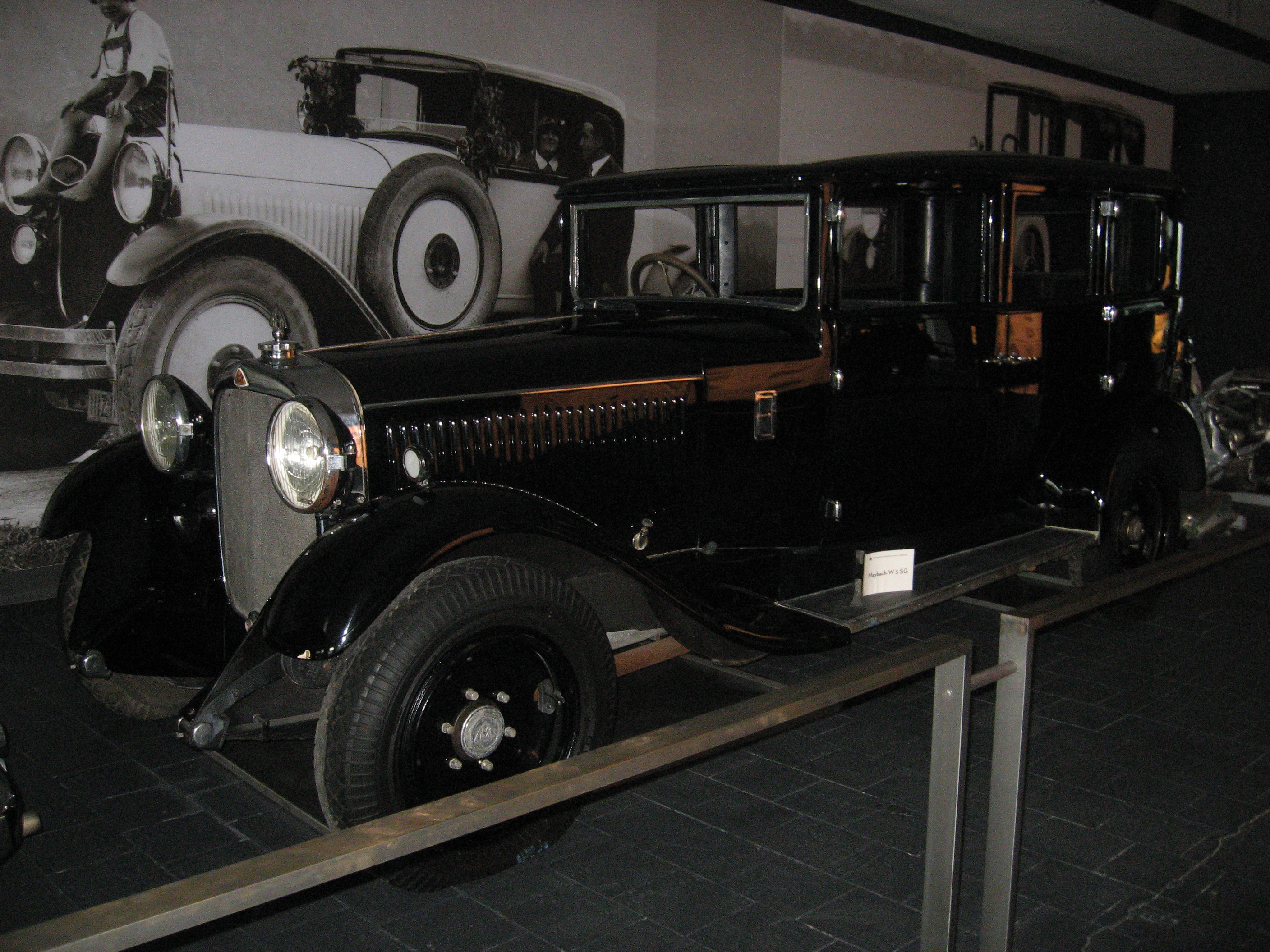 Subject: Maybach W5 SG Limousine Date:June 11th, 2011 Place/Country: Museum für historische Maybach-Fahrzeuge, Neumarkt in der Oberpfalz (Germany) I release all rights in the public domain.